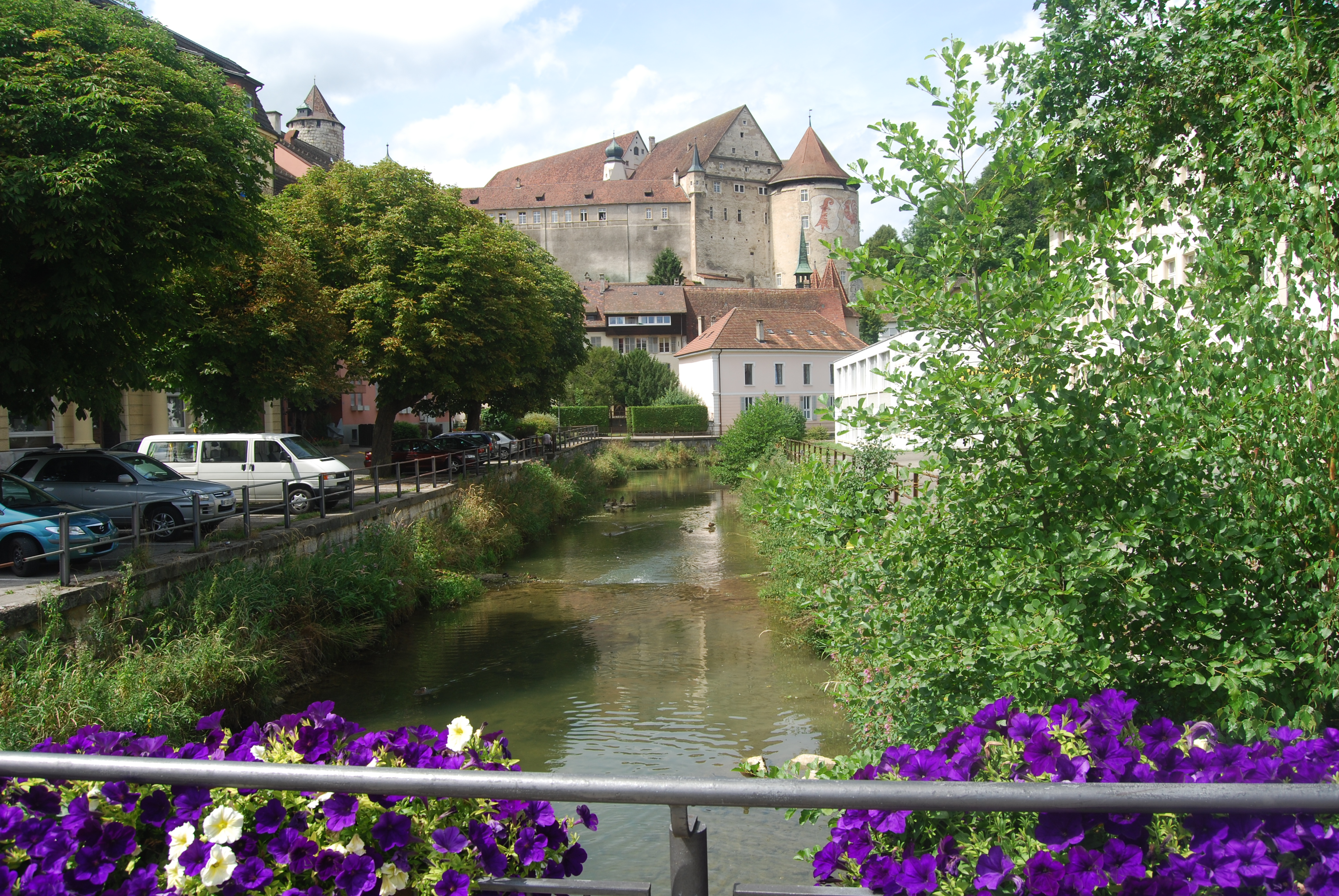 Allain e at Porrentruy, canton of Jura, SwitzerlandEsperanto: Allaine en Porrentruy, Kantono Ĵuraso, Svislando